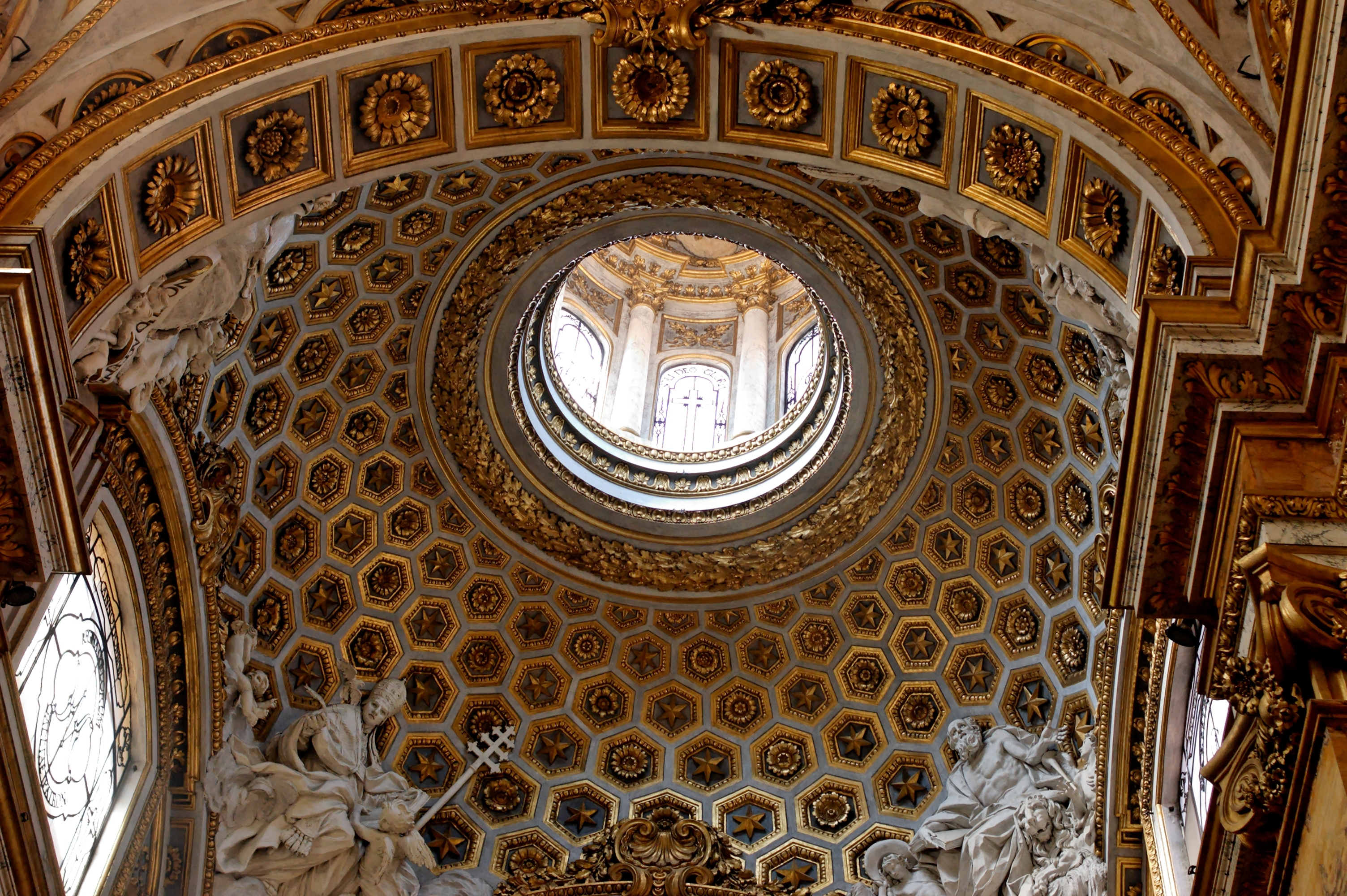 Dome of the church San Luigi dei Francesi (late 16th century) in Rome.